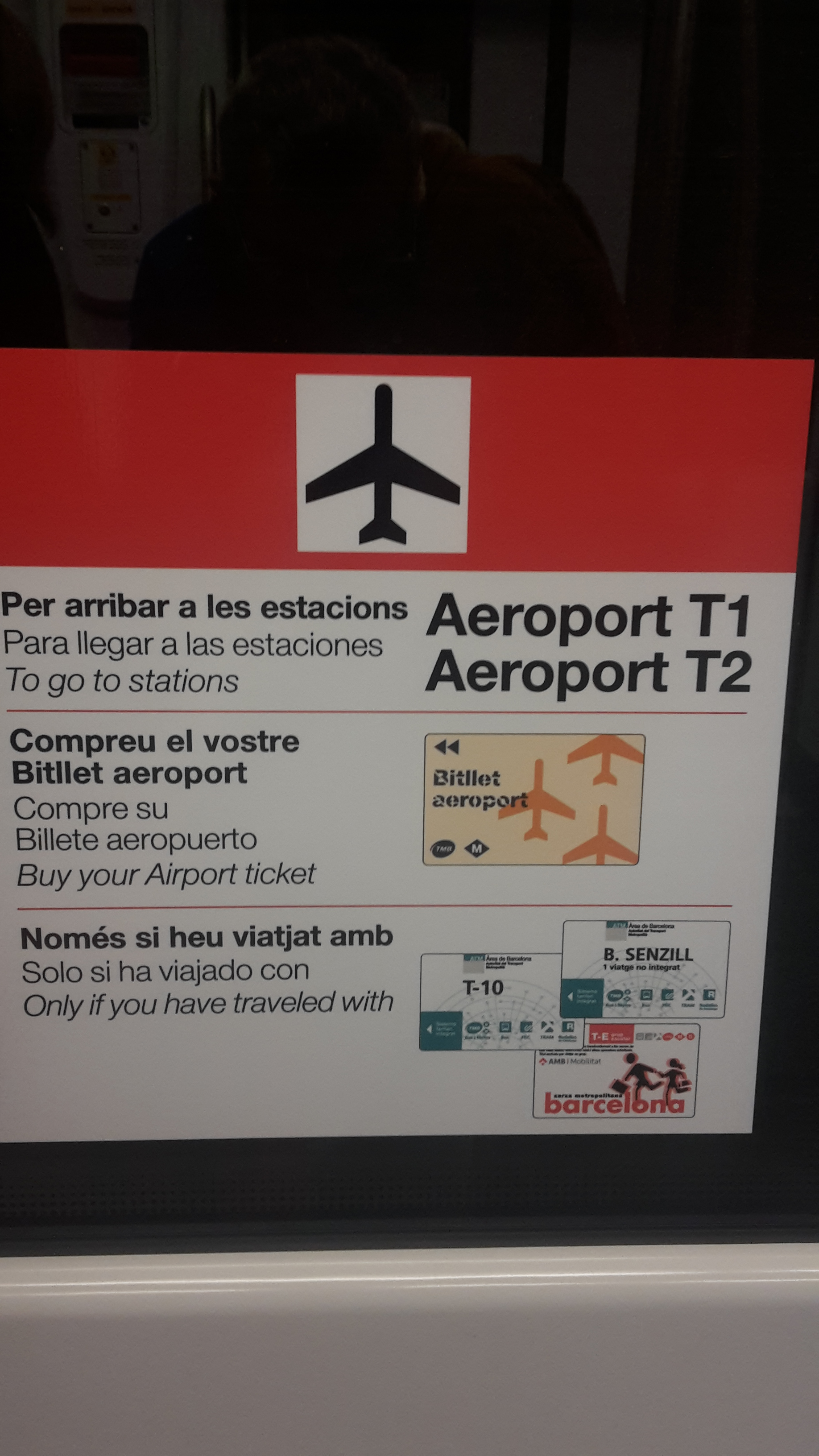 there is an extra charge of 4.5 euros if you go to the airport, and is only announced inside the trains.